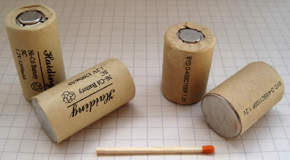 2 Sub-C and 2 4/5 Sub-C Ni-Cd cells with matchstick for scale and 7mm grid background. These cell types are often found in power tool battery packs. There is no IEC designation given but it can be extrapolated as: KR22C429 and KR22C343C respectively.